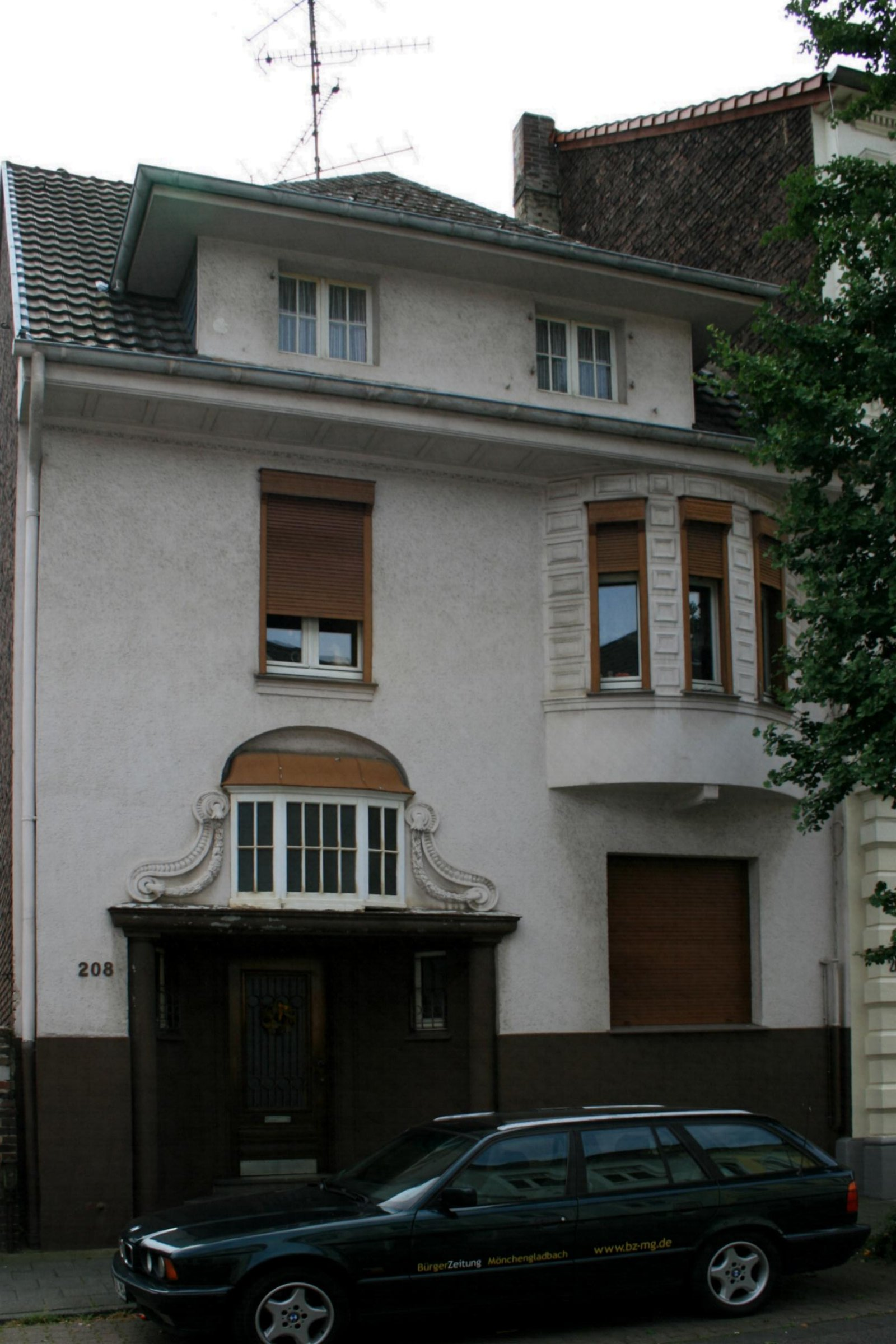 Cultural heritage monument No. M 038 in Mönchengladbach